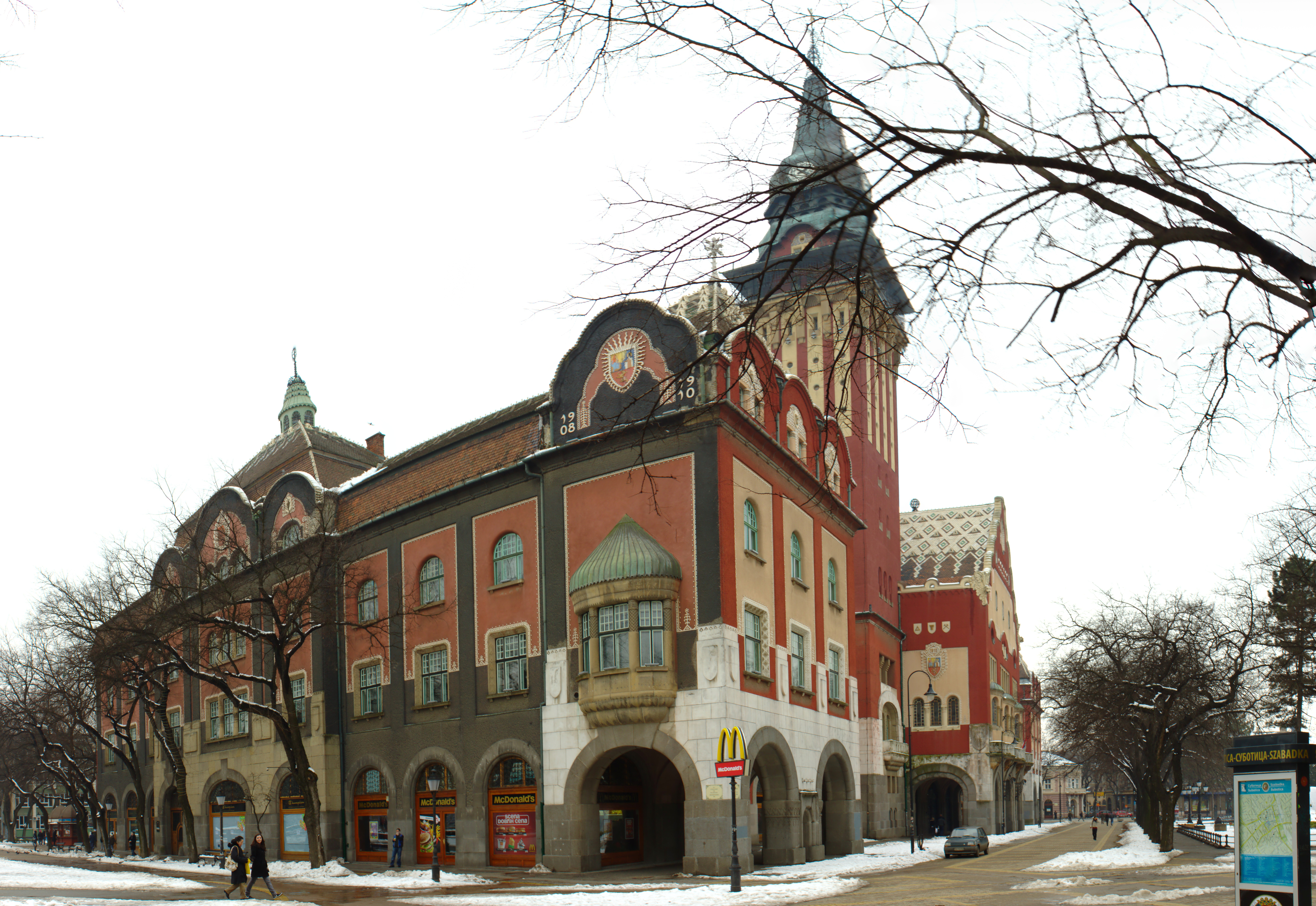 Panoramic picture of the town hall in Subotica, Vojvodina, Serbia